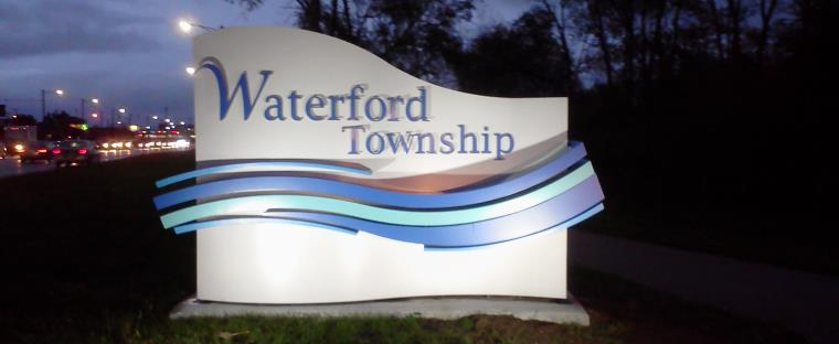 Gateway sign heading into Waterford Township MI from eastbound M-59.